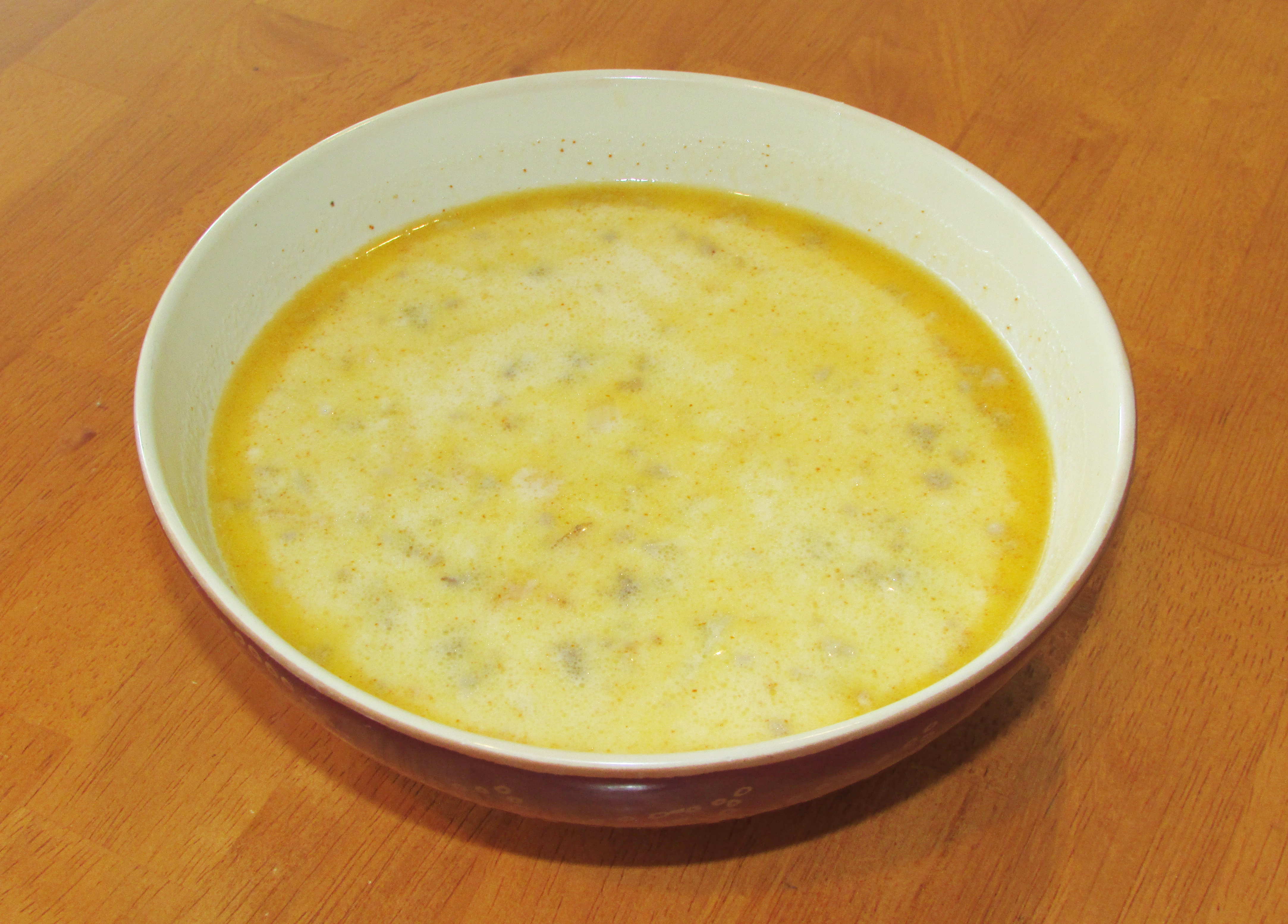 A bowl of Zuppa Toscana, made from the Wikibooks recipe.